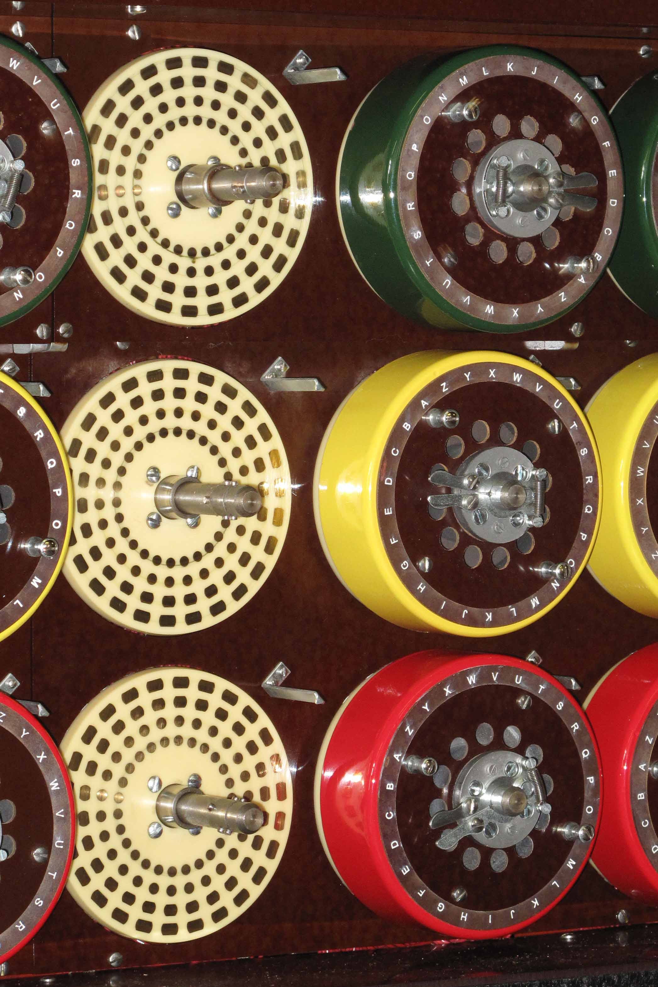 Drums and drum mounting plate on Bletchley Park's working rebuilt bombe